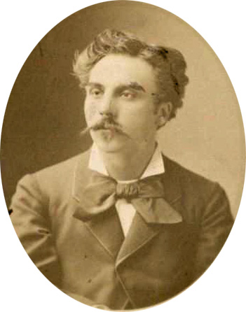 Gabriel Fauré by Emile Tourtin, Paris.